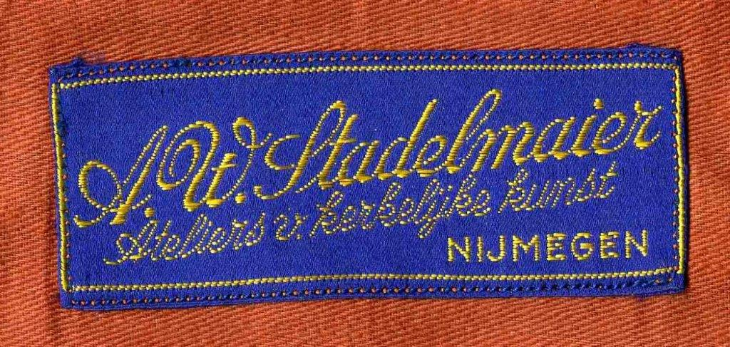 De gewaden van de firma Stadelmaier zijn altijd te herkennen aan een label. Dit blauwe label is een van de vroegste en dateert uit de periode 1930-1935.